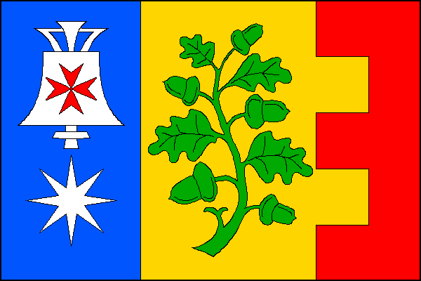 Municipal flag of Semín village, Pardubice District, Czech Republic.